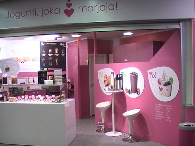 Yo! Frozen Yogurt Cafe, finnish frozen yogurt store in Turku's Hansakortteli. The business was founded in July 2012.